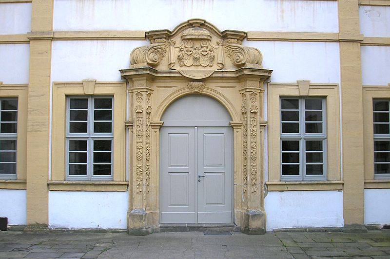 Heilgersdorf castle (Landkreis Coburg, Upper Franconia, Germany). The main portal